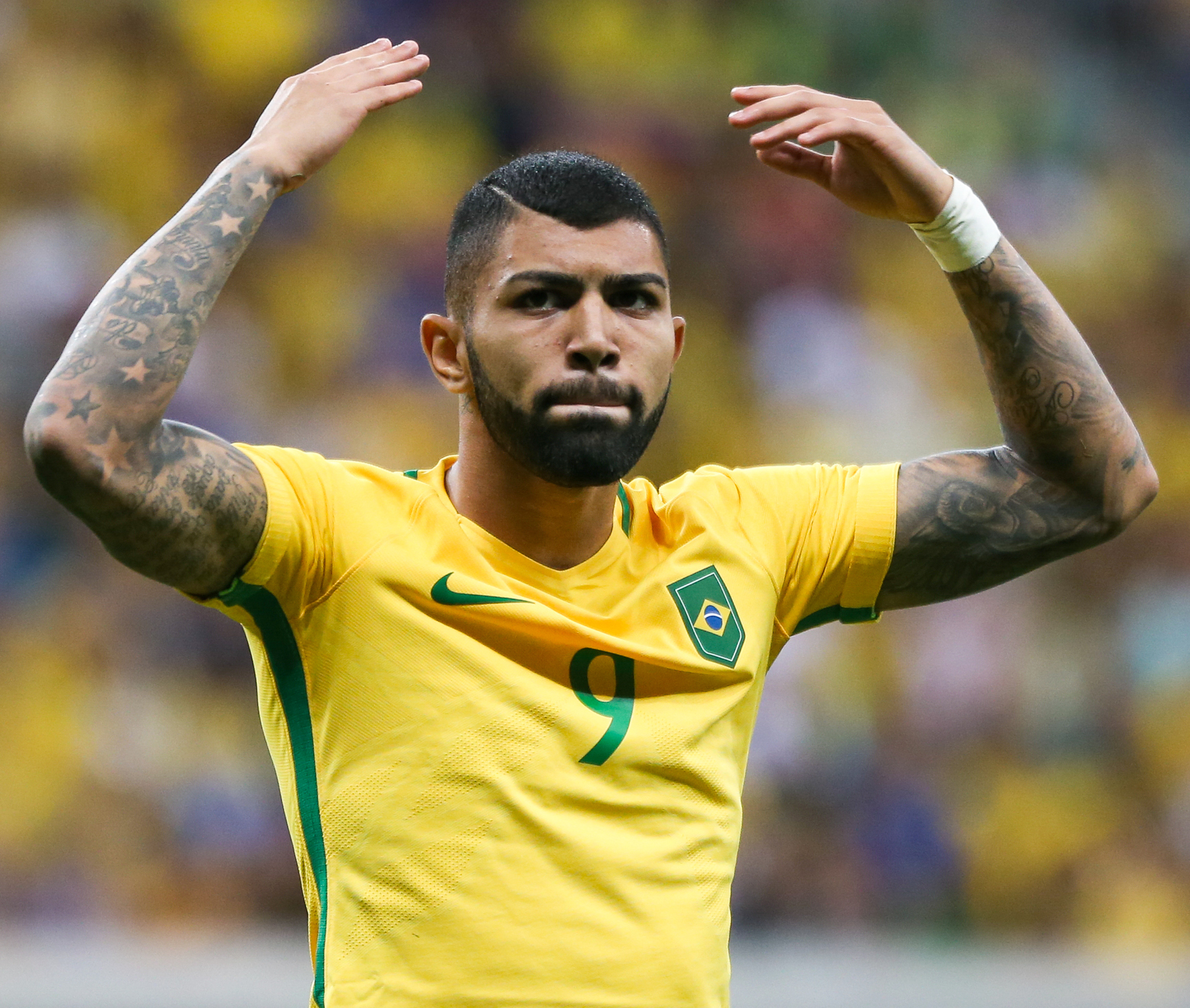 Gabriel Barbosa, Brazil-Iraq 0:0